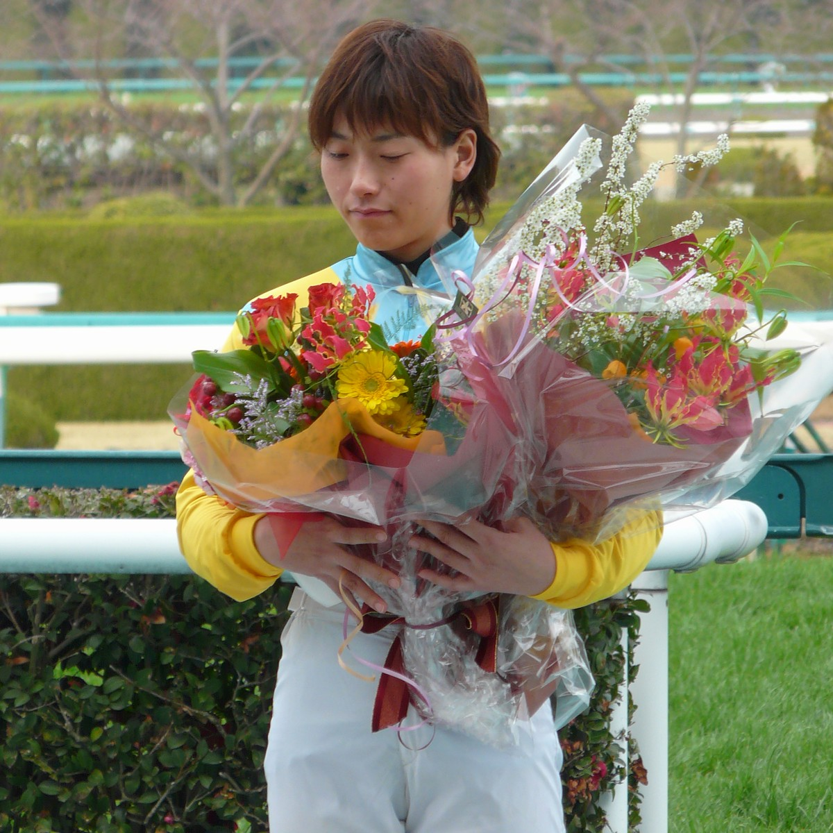 Rena-Nishihara